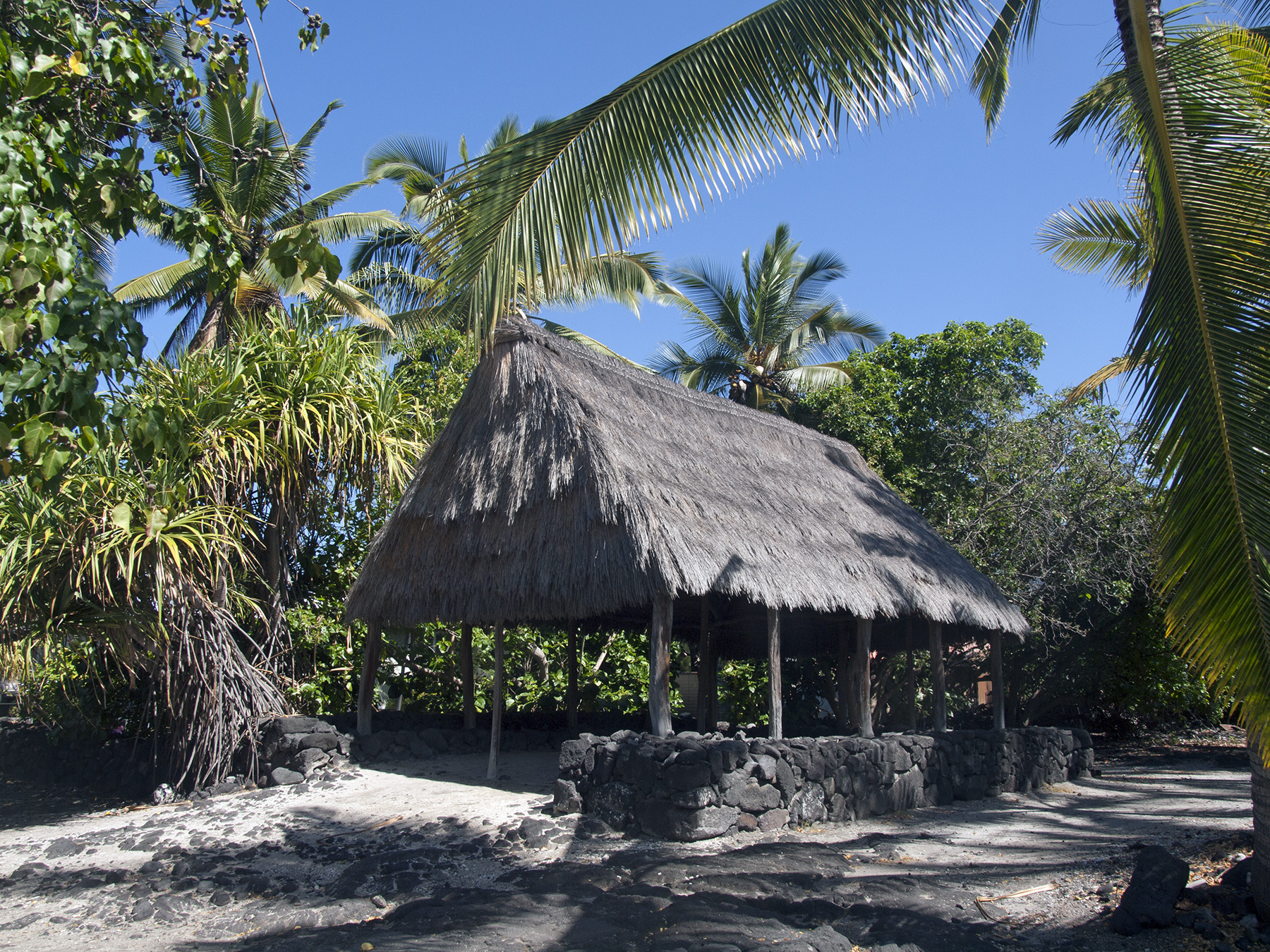 Pu'uhonua o Honaunau, Kona District (place of refuge) xiii